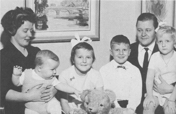 Photograph of Pirkko and Keijo Liinamaa with their children.